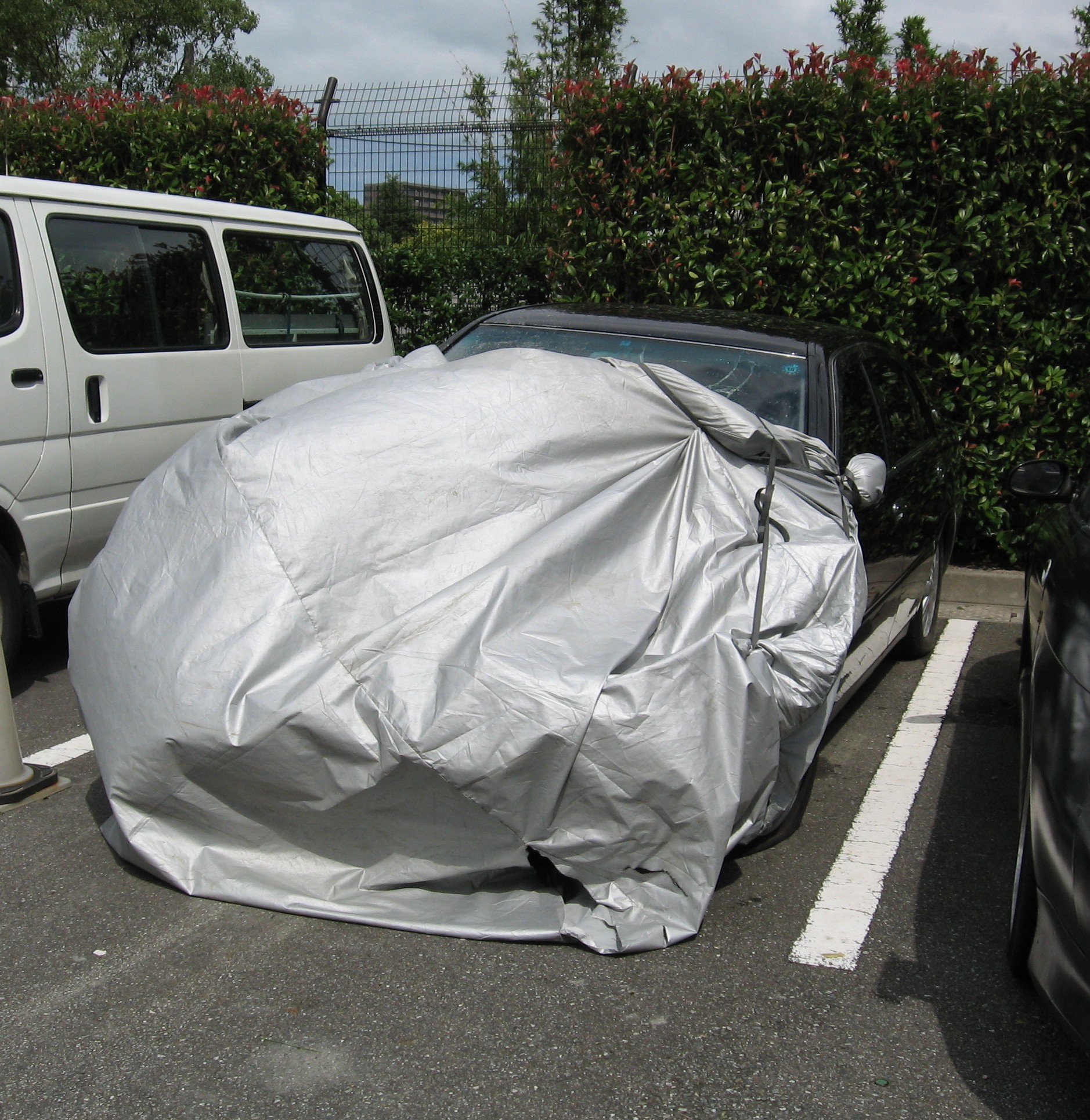 The car broken by the accident that a drunkard killed 3 kids, Fukuoka, Japan, Aug 25 2006.